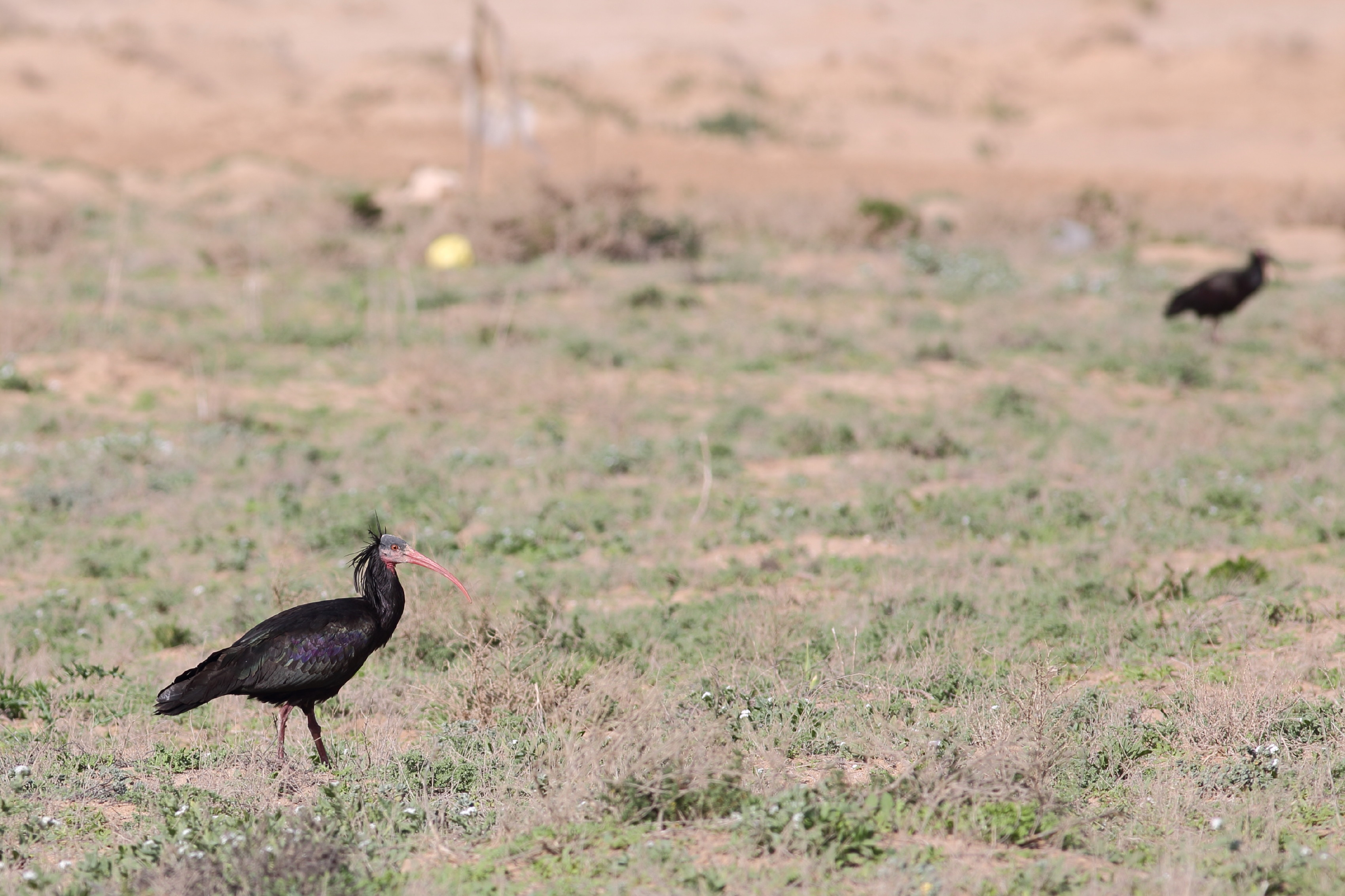 Hermit Ibis in Souss-Massa National park, Morocco.